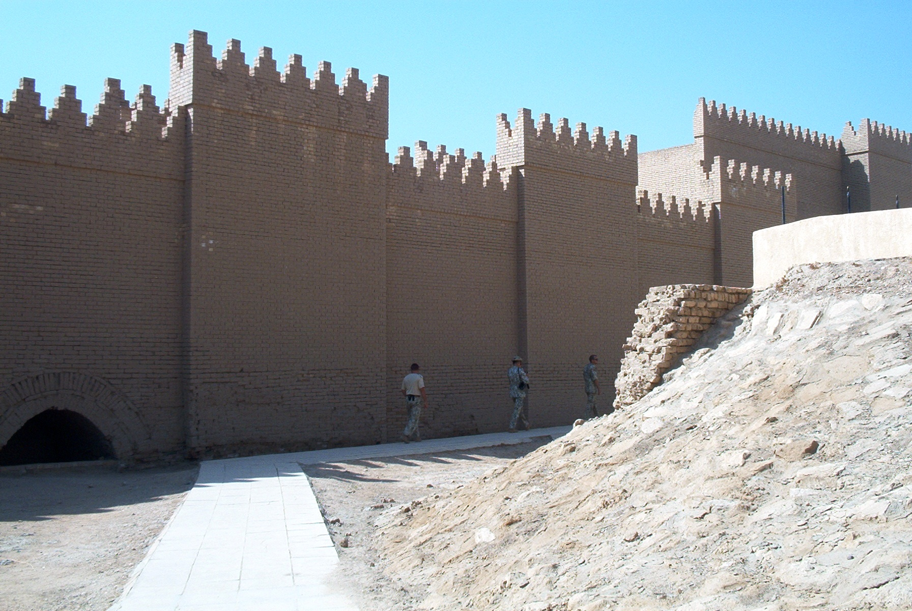 Walls of Babylon